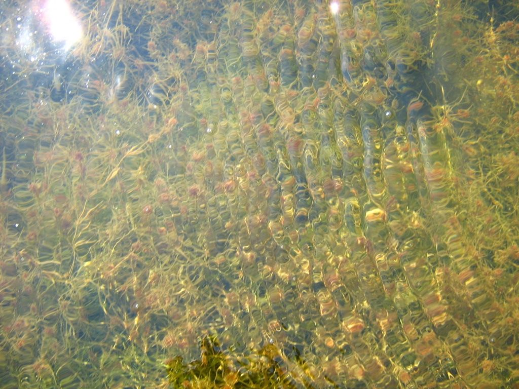 Stonewort (Chara) submersed meadow. Poland.